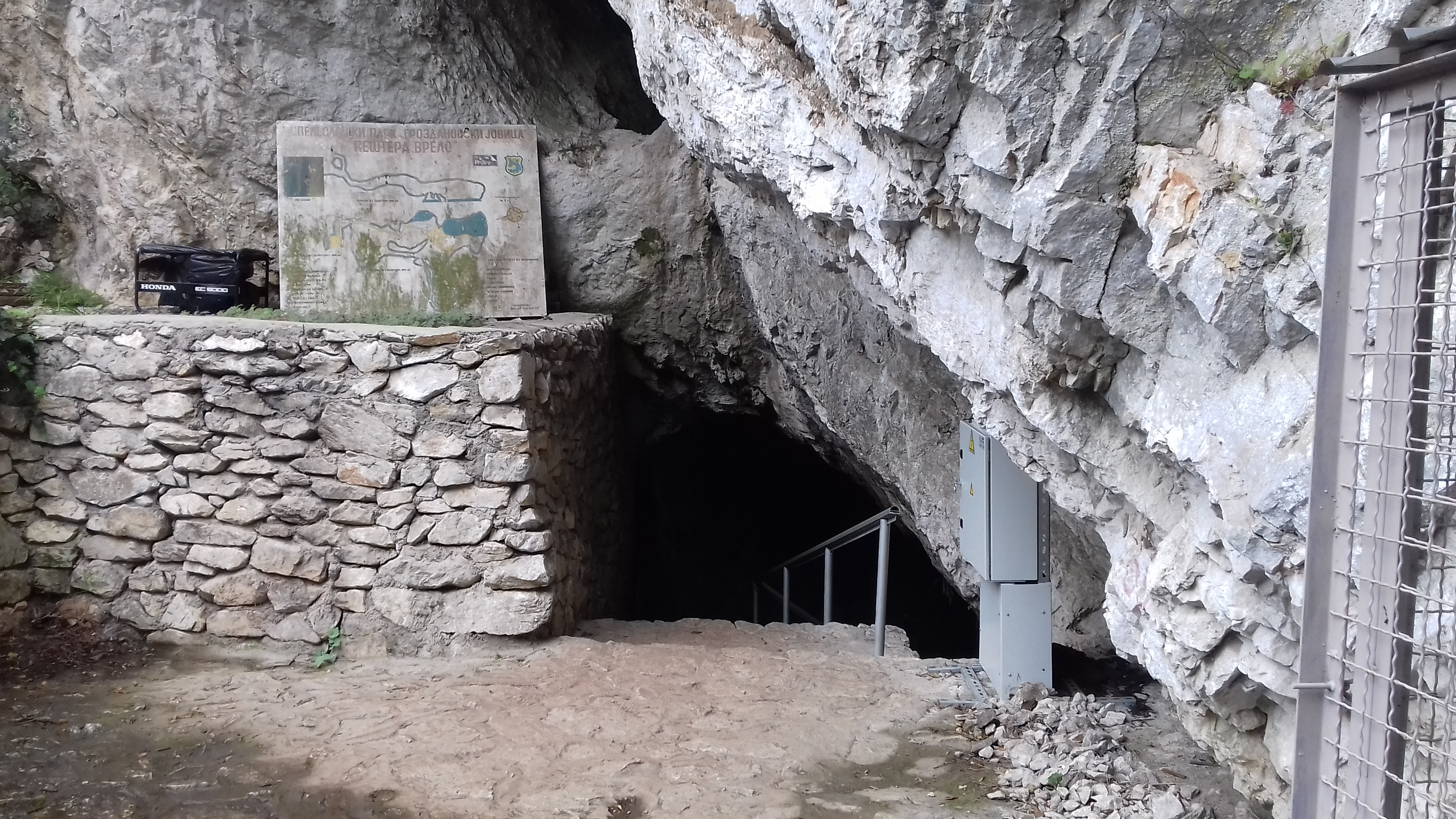 The entrance of Vrelo cave in Matka Canyon, near Skopje, Macedonia